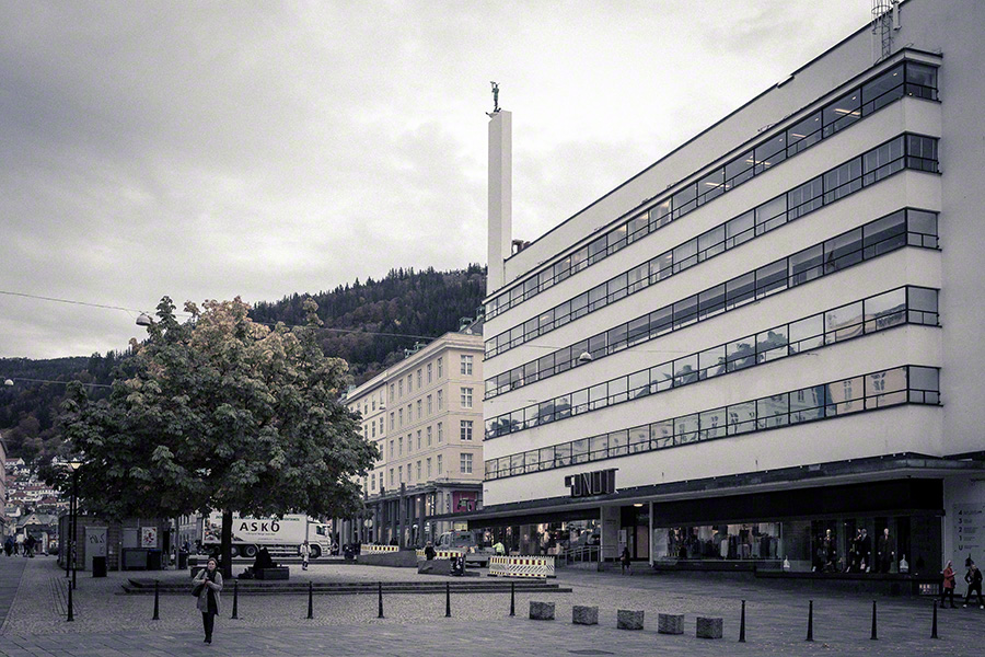 Torgalmenningen is the main square of Bergen, Norway.